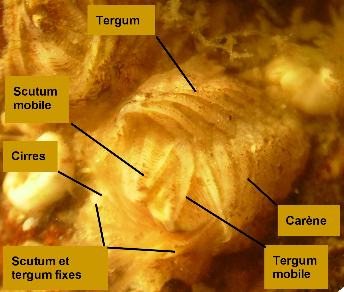 Verruca stroemia, shell plates names.